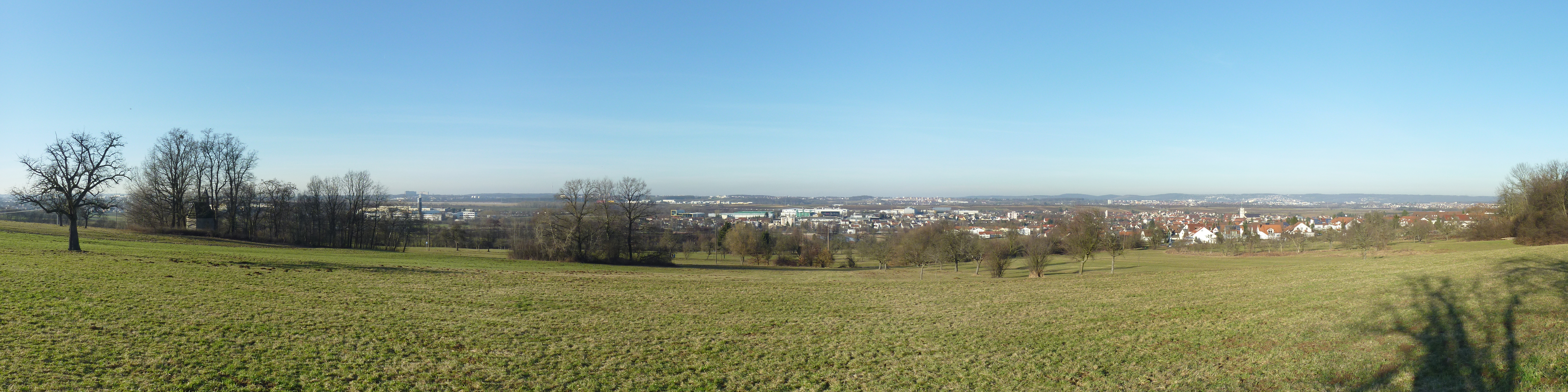 Neuhausen auf den Fildern, South View